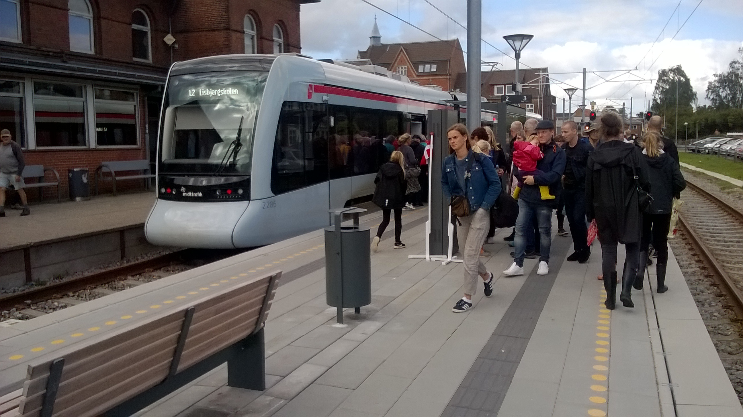 Odder Banegård, Aarhus Letbane.